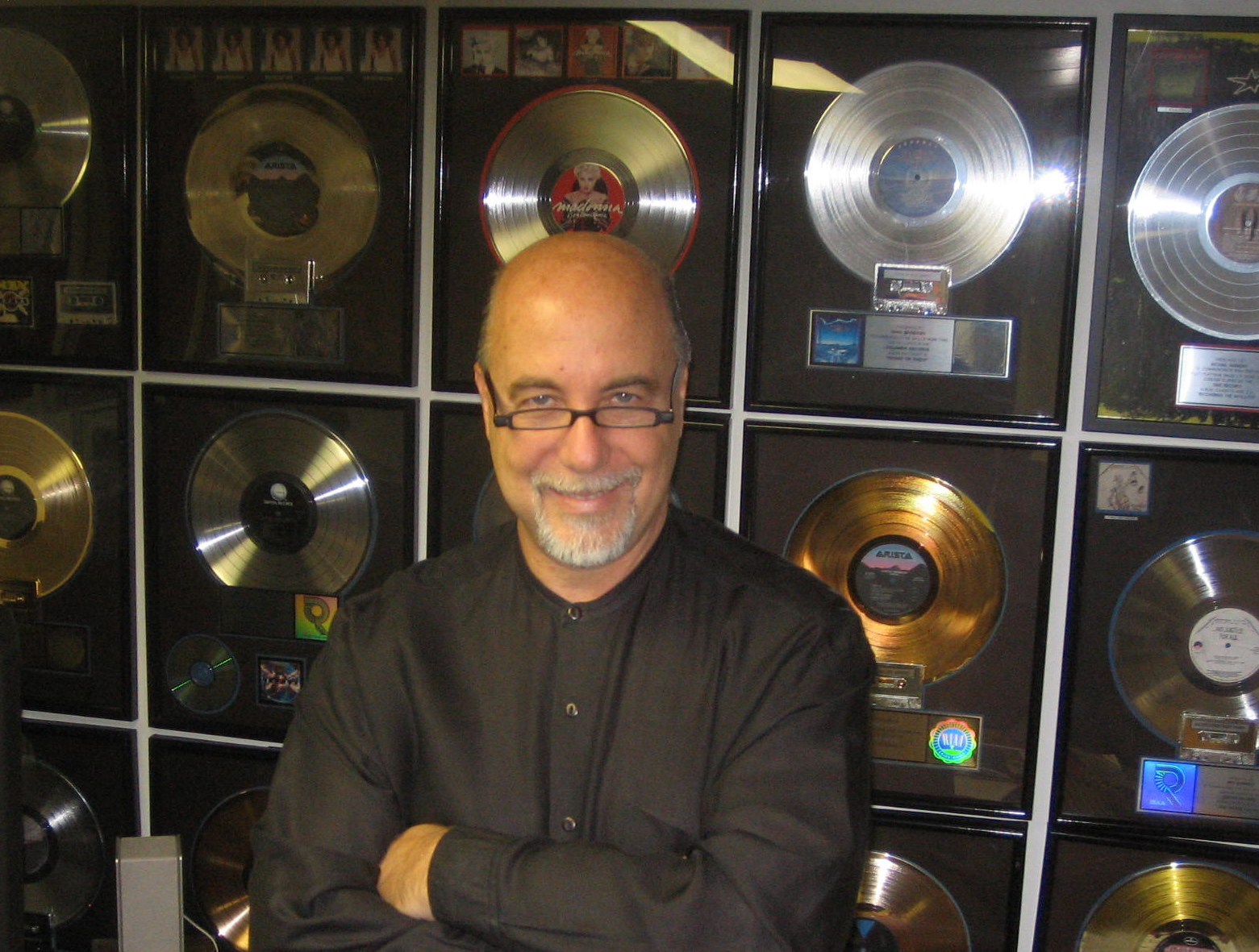 Michael Barbiero standing in front of his awards.